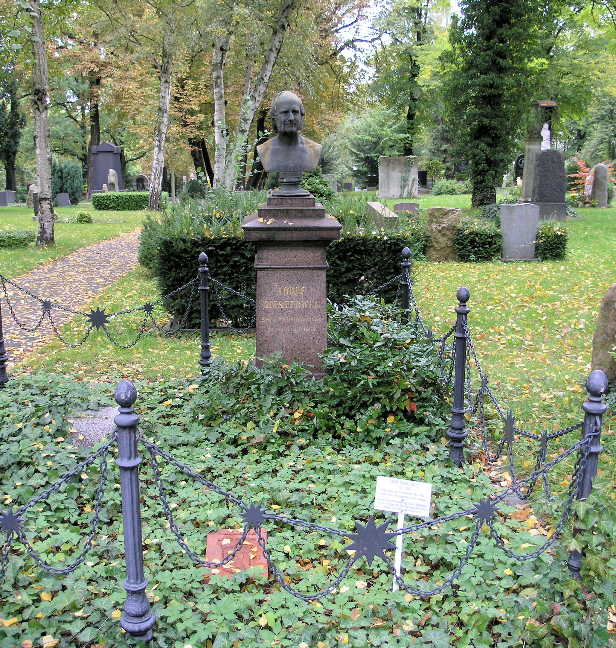 "Ehrengrab" (grave of honor), Adolf Diesterweg, Großgörschenstraße 12, Berlin-Schöneberg, Germany Koordinate:52°29′28″N 13°22′2″E / 52.49111°N 13.36722°E